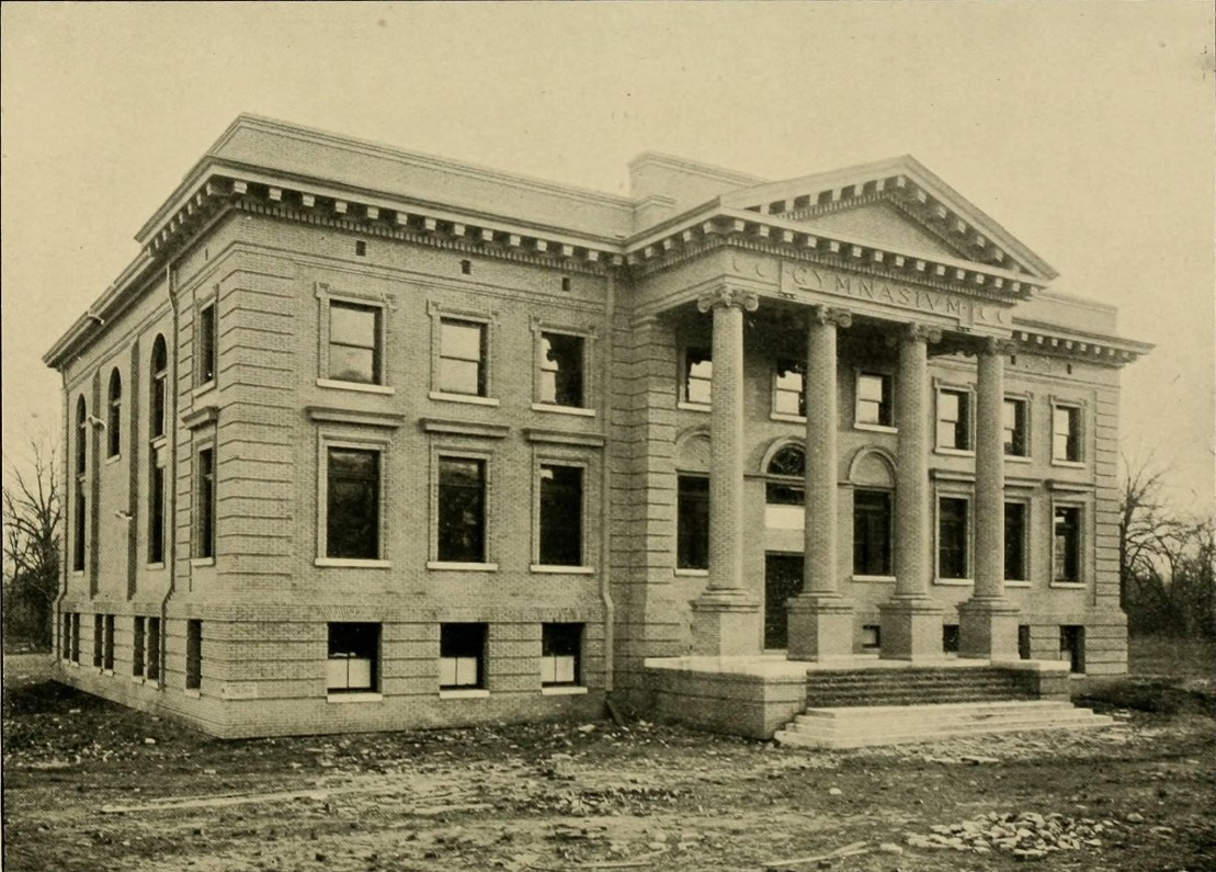 Bynum Gymnasium after being constructed in 1905